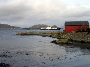 Vanylven (Åram) - the ferry sets course to Kvamsøya